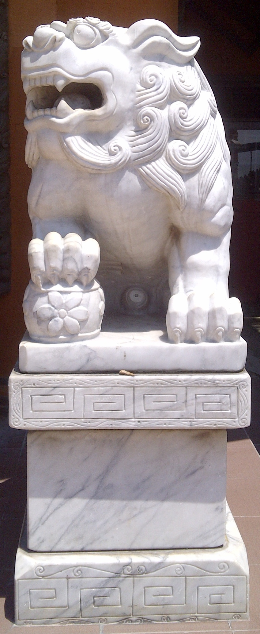 Left Chinese lion statue represent Yang force, male, positive, bring, carry a ball. Sanggar Agung Temple, Surabaya, Indonesia.